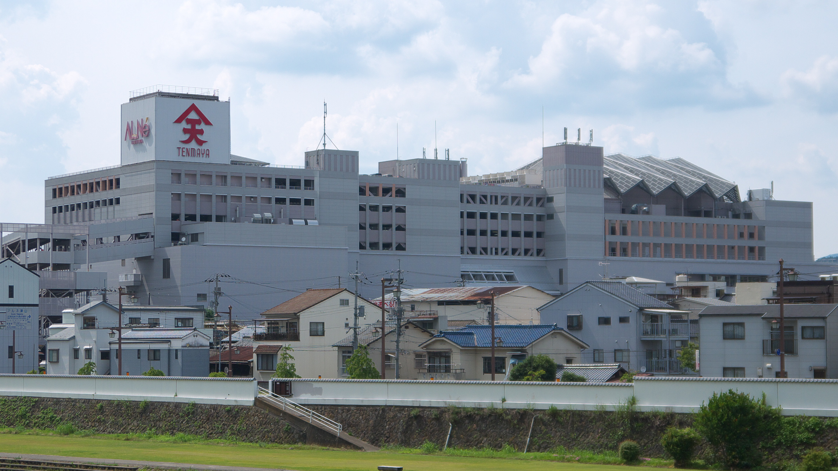 ALNE-TSUYAMA Tsuyama Tenmaya (Department store) Belle Forêt Tsuyama (Concert hall) Public library of Tsuyama city